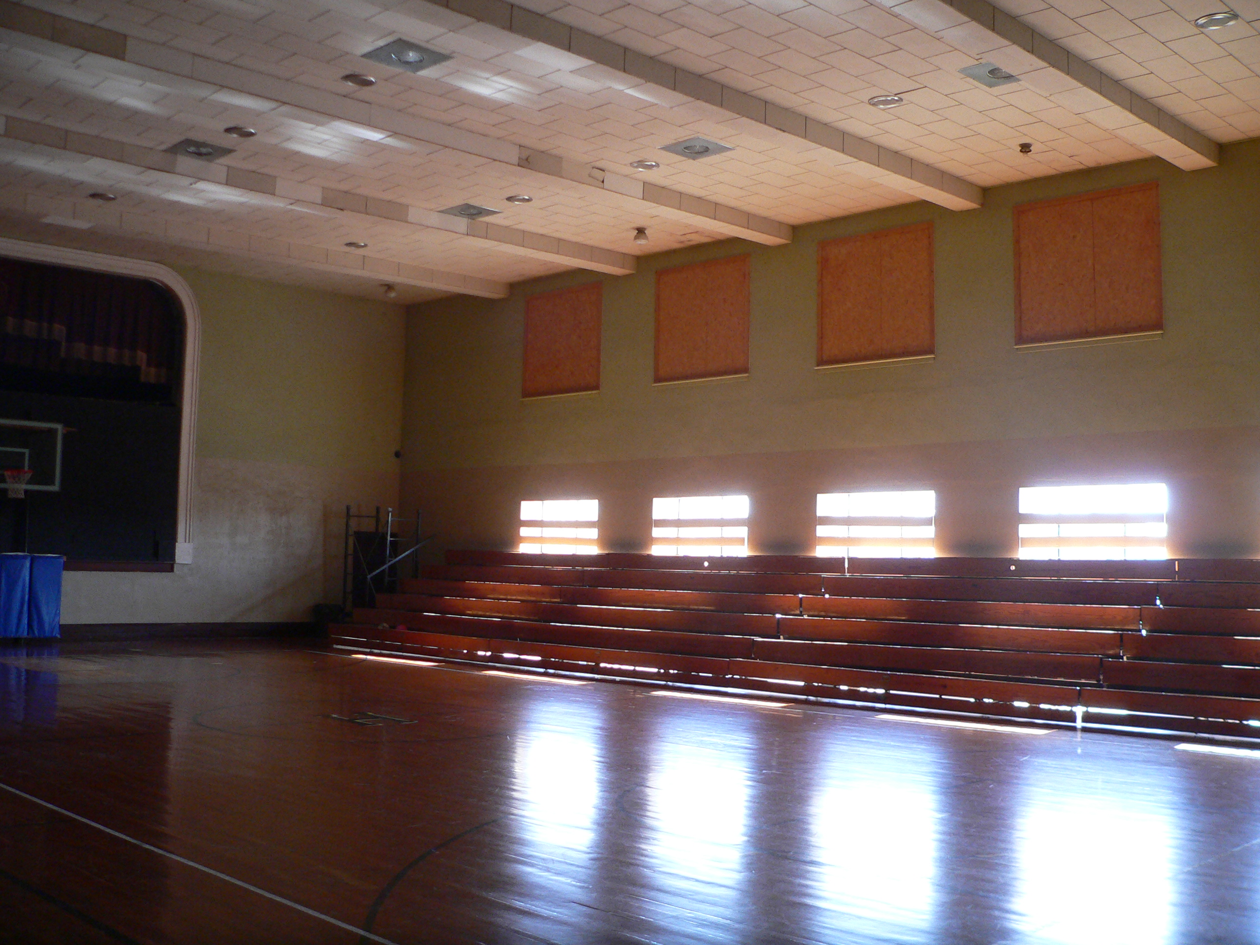 Interior of city auditorium in Hartington, Nebraska: basketball court, facing southeast.